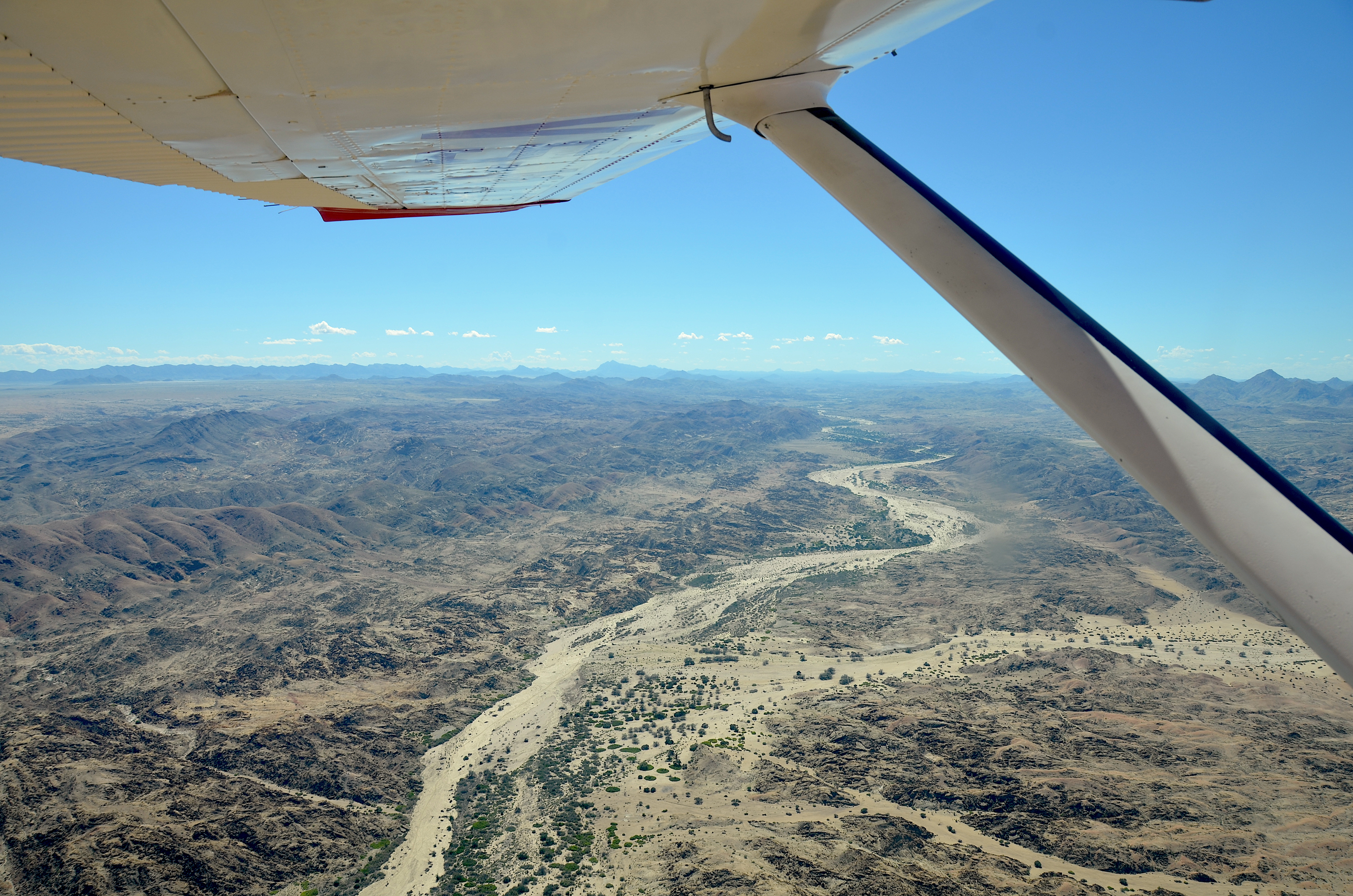 Swakop River 13km northeast of Langer Heinrich (2017)